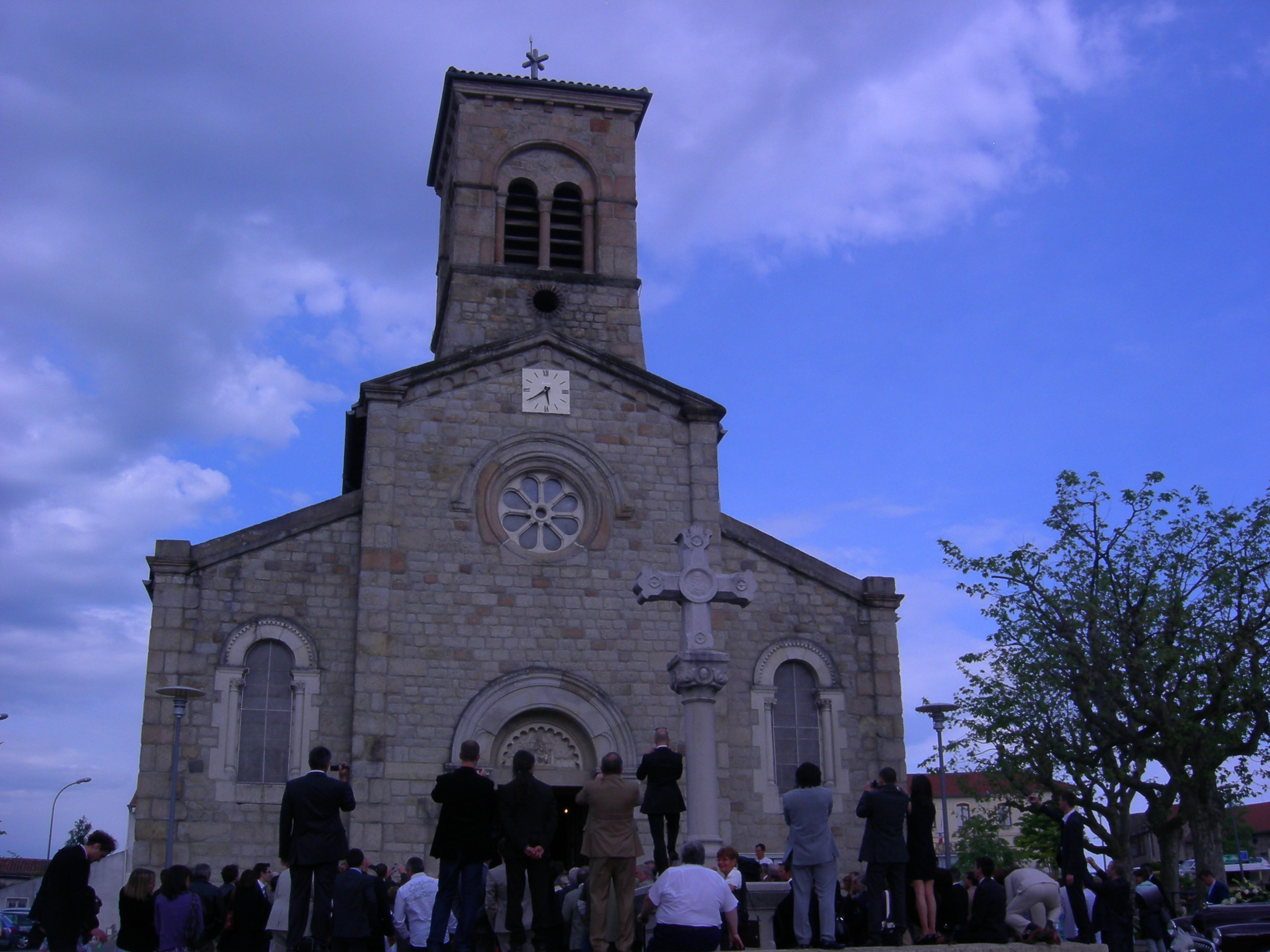 saint priest church